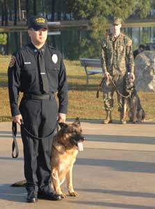 MCPD Officer prepares to turn Lex over to the Lee family